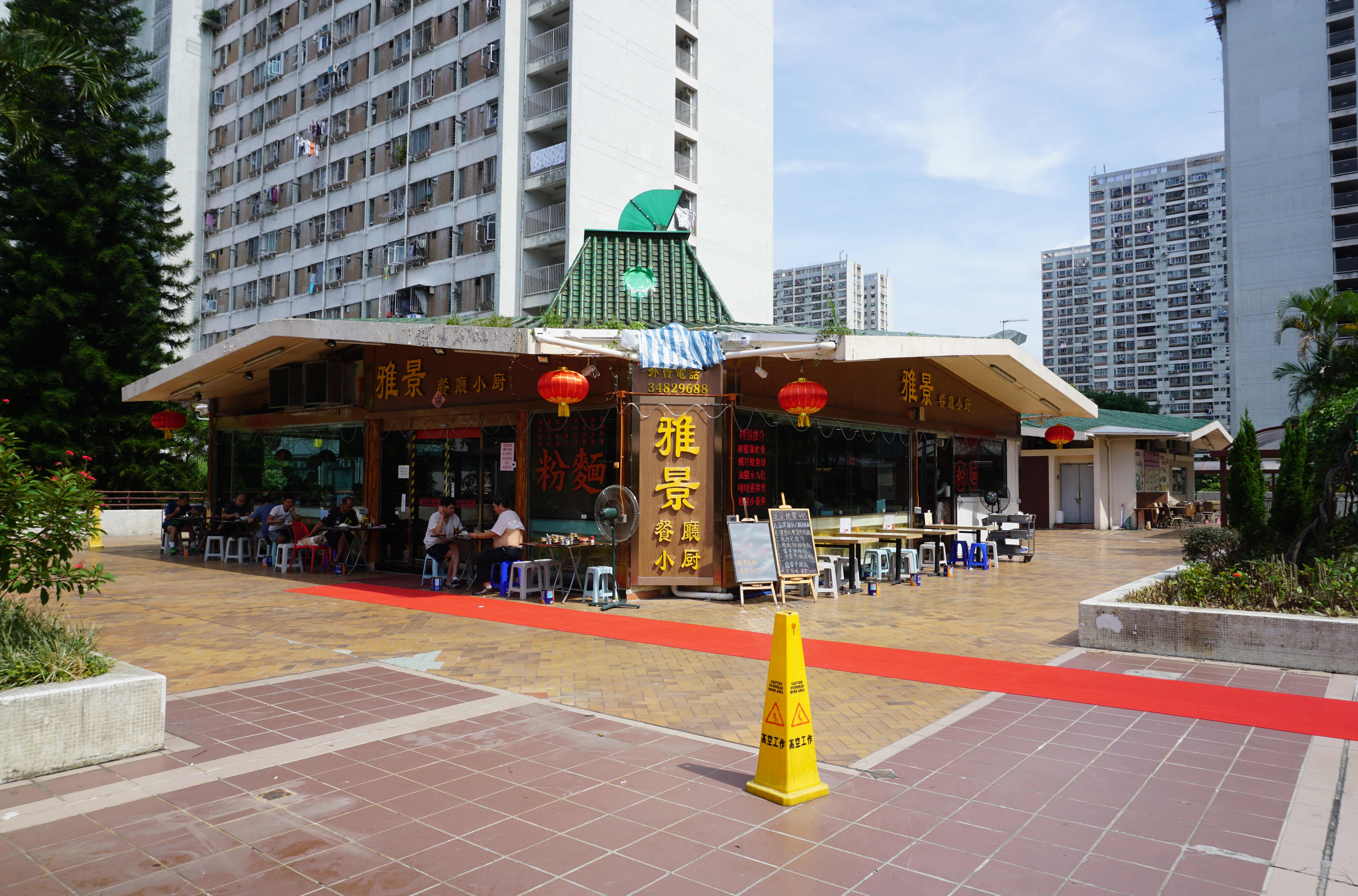 Cheung Wah Estate in Fanling, Hong Kong.